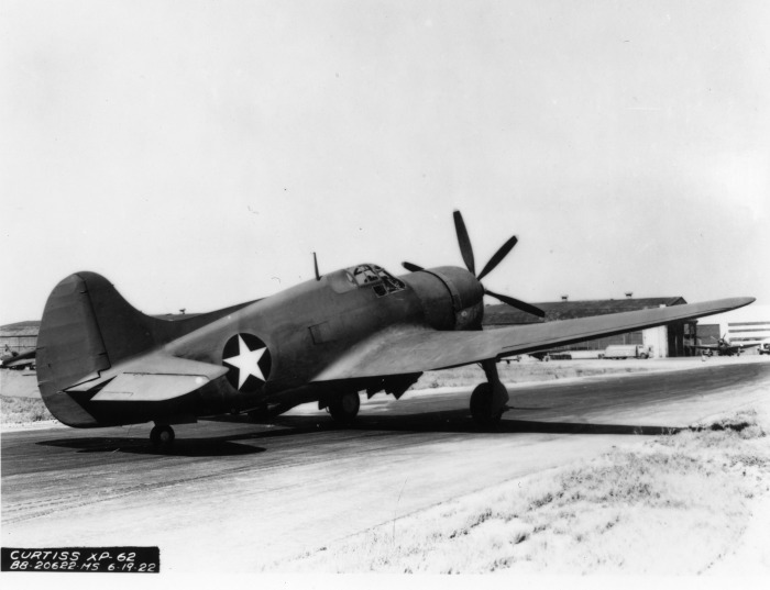 PictionID:47090848 - Catalog:16_008277 - Title:Curtiss XP-62 41-35873 - Filename:16_008277.tif - Ray Wagner was Archivist at the San Diego Air and Space Museum for several years and is an author of several books on aviation --- ---Please Tag these images so that the information can be permanently stored with the digital file.---Repository: San Diego Air and Space Museum